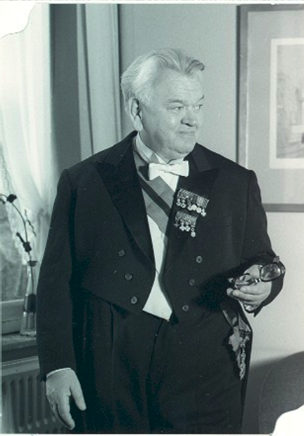 Picture of Fernand Dehousse